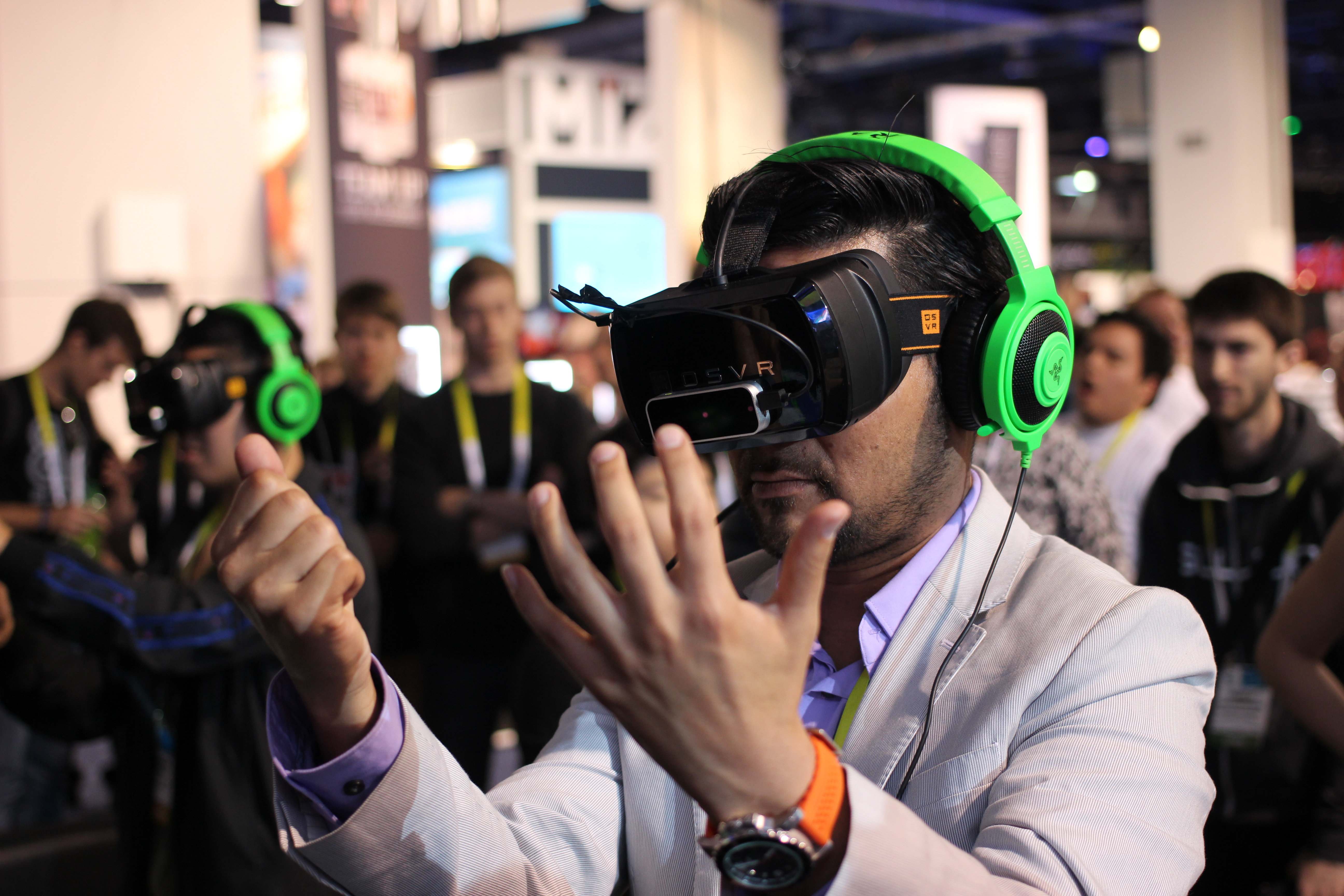 Razer OSVR Open-Source Virtual Reality for Gaming